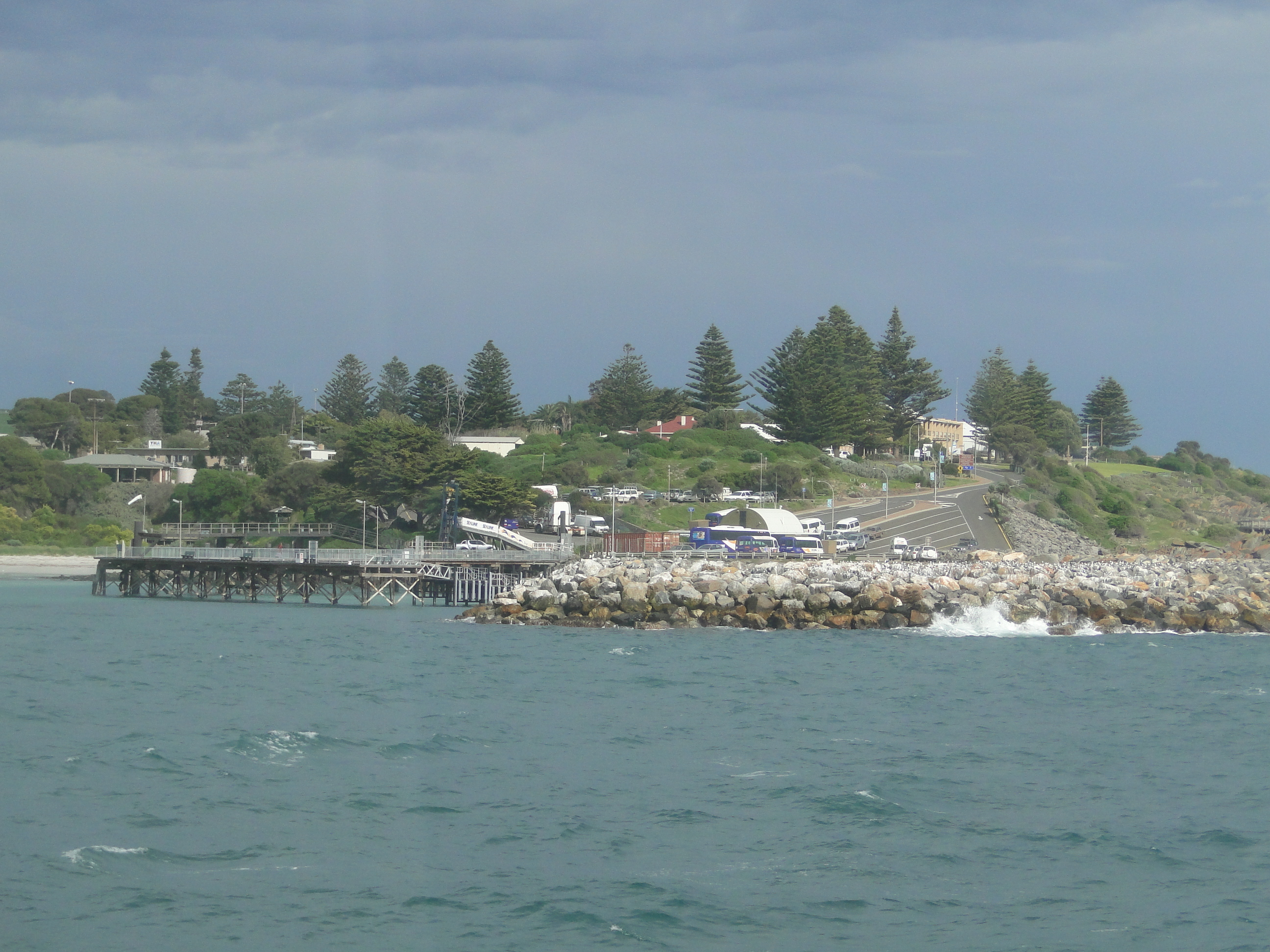 The harbour and town of Penneshaw, Kangaroo Island, South Australia. Photo taken from the ferry.